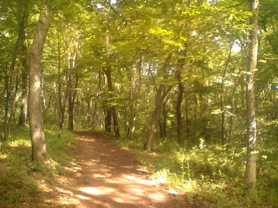 I took this picture myself. To be used IN wikipedia. Enjoy.